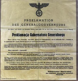 German poster proclaiming the creation of General Government by Nazi-Germany from part of occupied Poland. Poland , October 1939. Below is text of the poster.